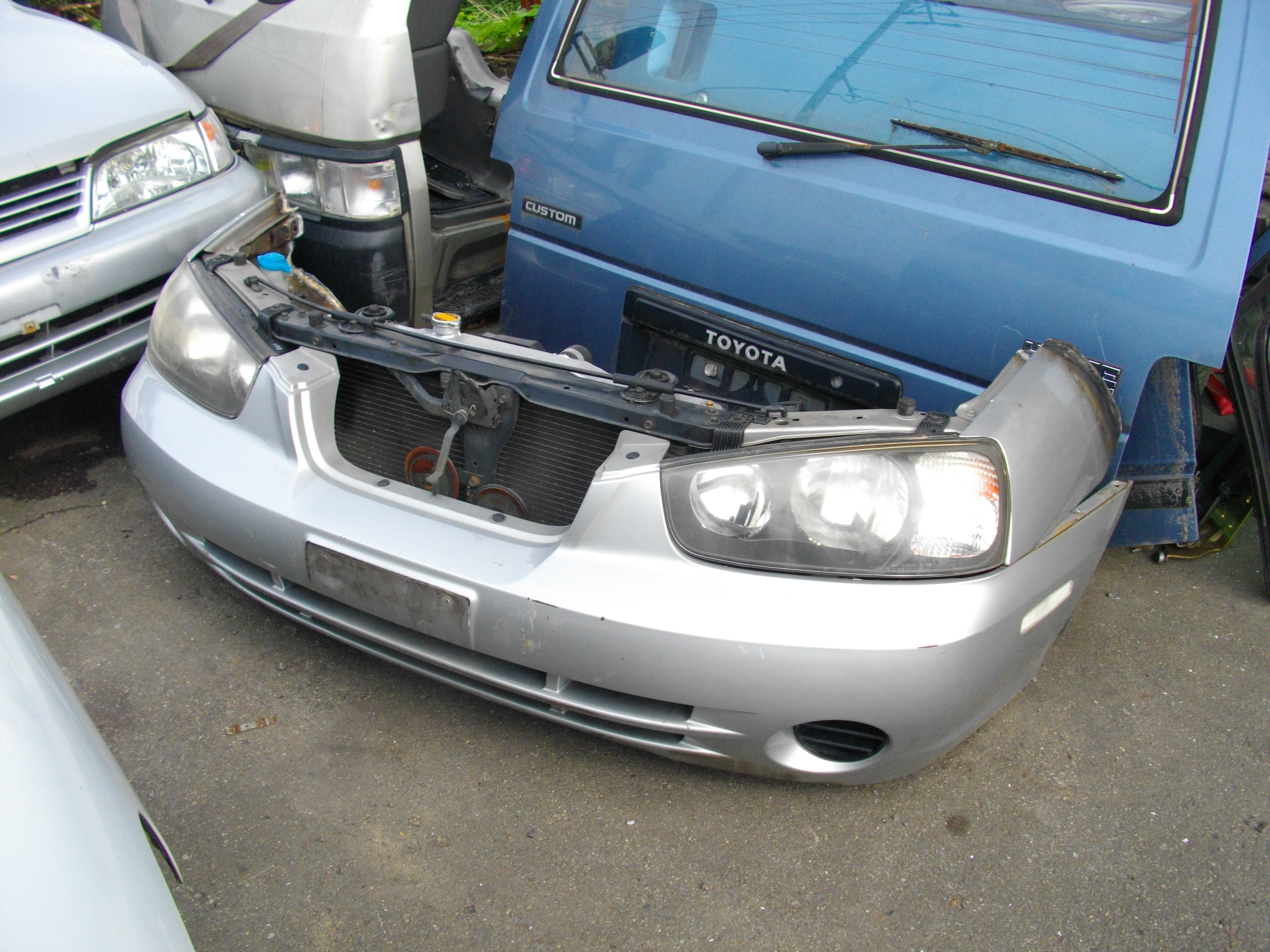 Used Hyundai Elantra(XD),Toyota Corolla(E100), and Nissan Caravan(E24) for Exporting(Cutted to observe the law of destination.)